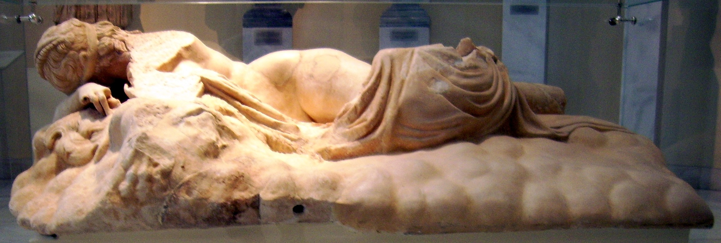 Statue of a sleeping Maenad, lying on a panther skin spread on a rocky surface; the type in known as the reclining Hermaphrodite; Pentelic Marble; found at the south of the Athenian Acropolis; Hadrianic time (117-138), follows a classical trend in the attic art; National Archeological Museum Athens (261)